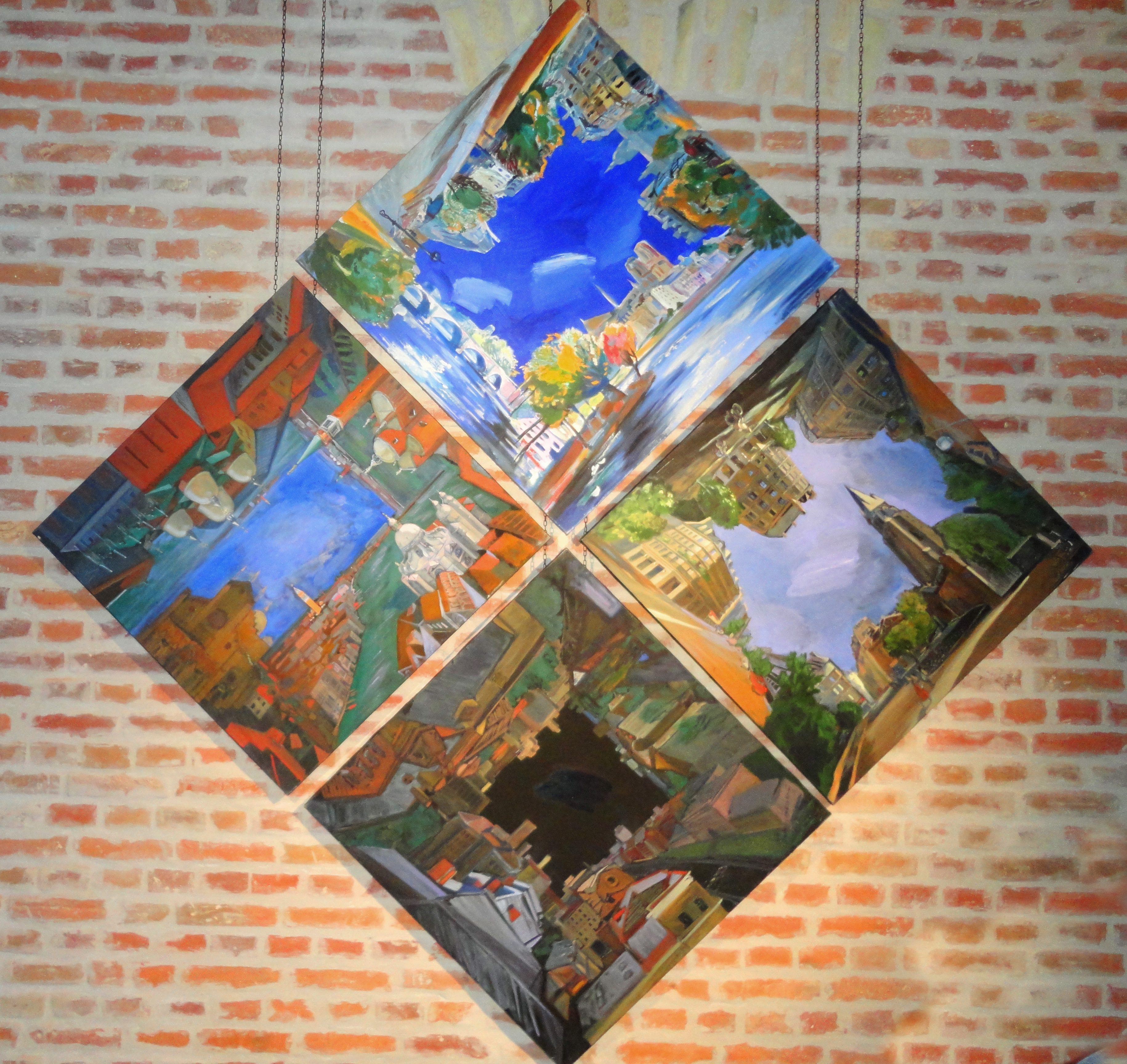 Paris. Painting by Glib Vyshes in Kiev’s “M14” Gallery , 2014